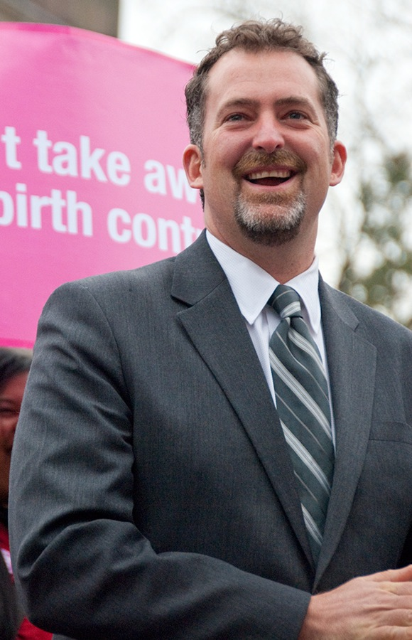 State Senator Kevin Ranker addressing the rally - Planned Parenthood/NARAL Lobby Day 2/28/11 Olympia WA